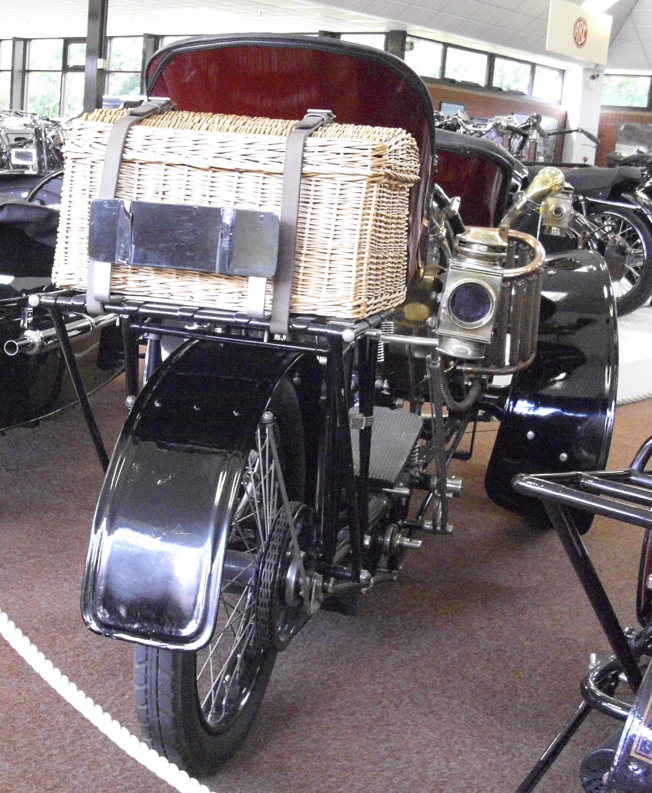 National Forecar